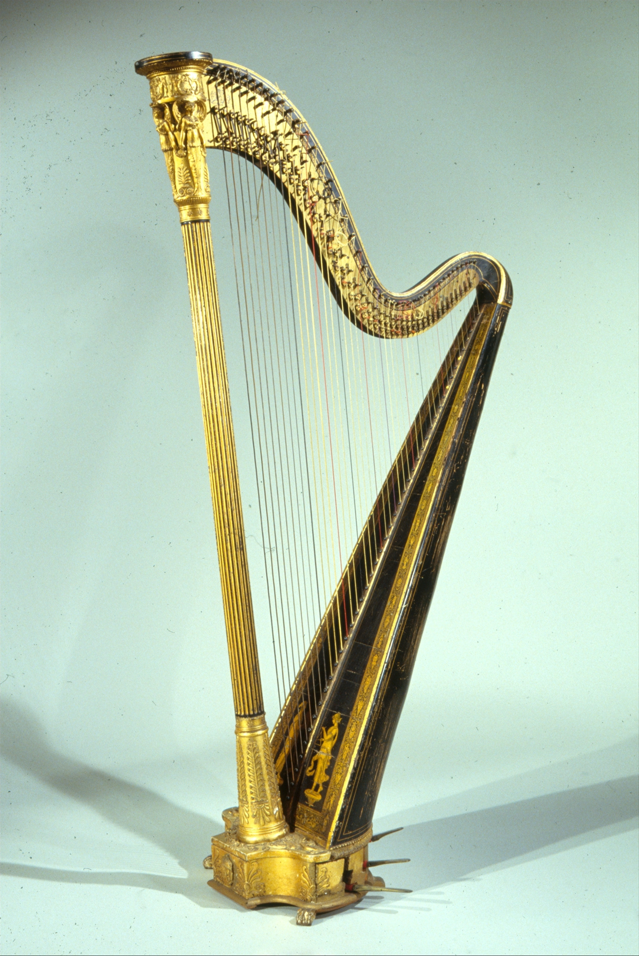 British; Pedal Harp; Chordophone-Harp